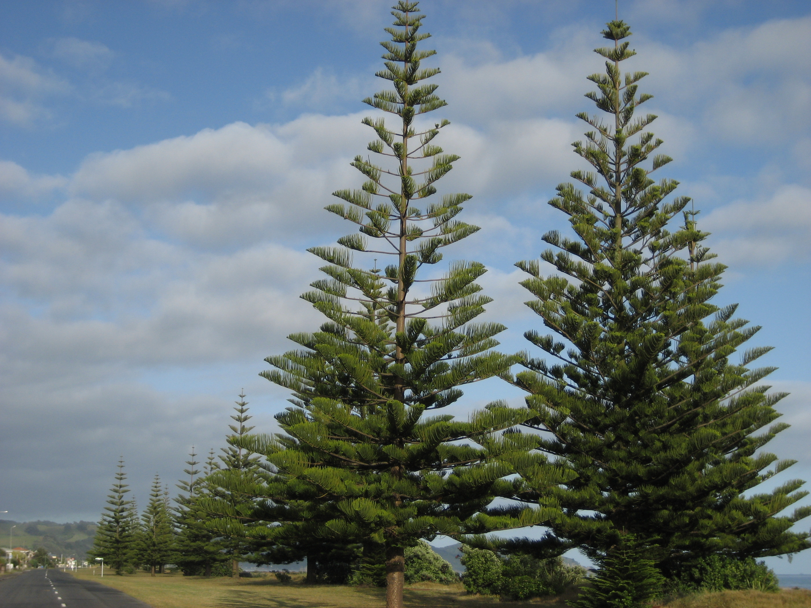 Araucaria heterophylla (Norfolk Island pines), Ōhope, near Whakatāne, New Zealand.